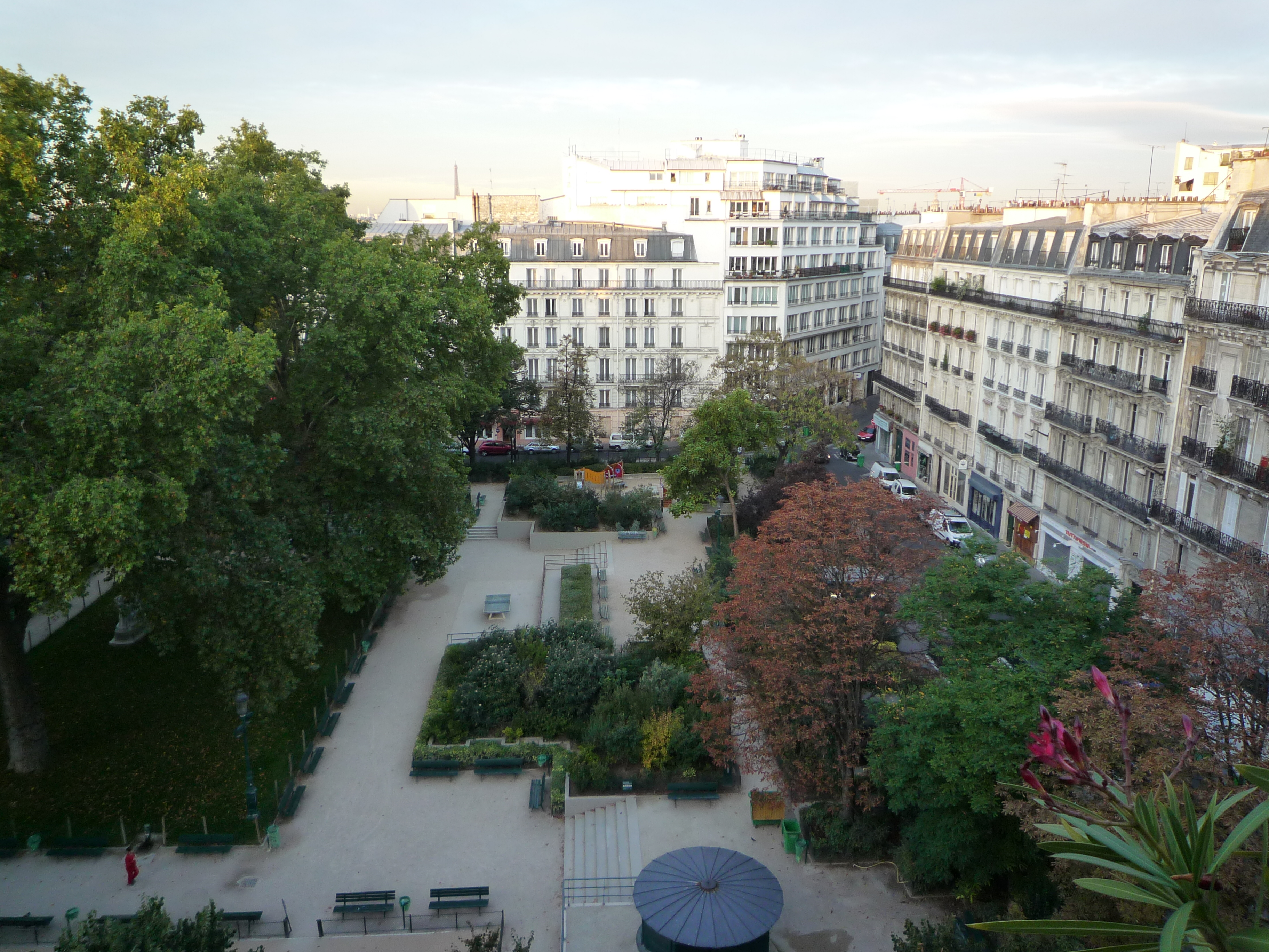 Montholon square from the 6, Pierre Sémard street